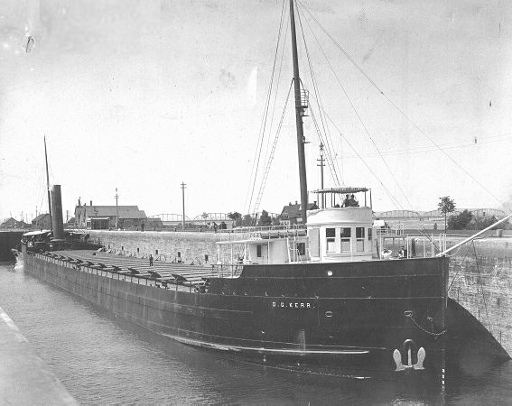 The steamer D.G. Kerr raising in the Soo Locks